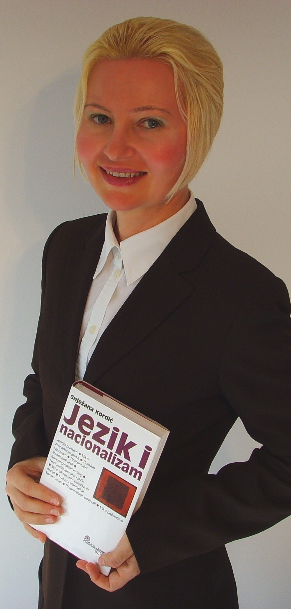 Photo of Snježana Kordić